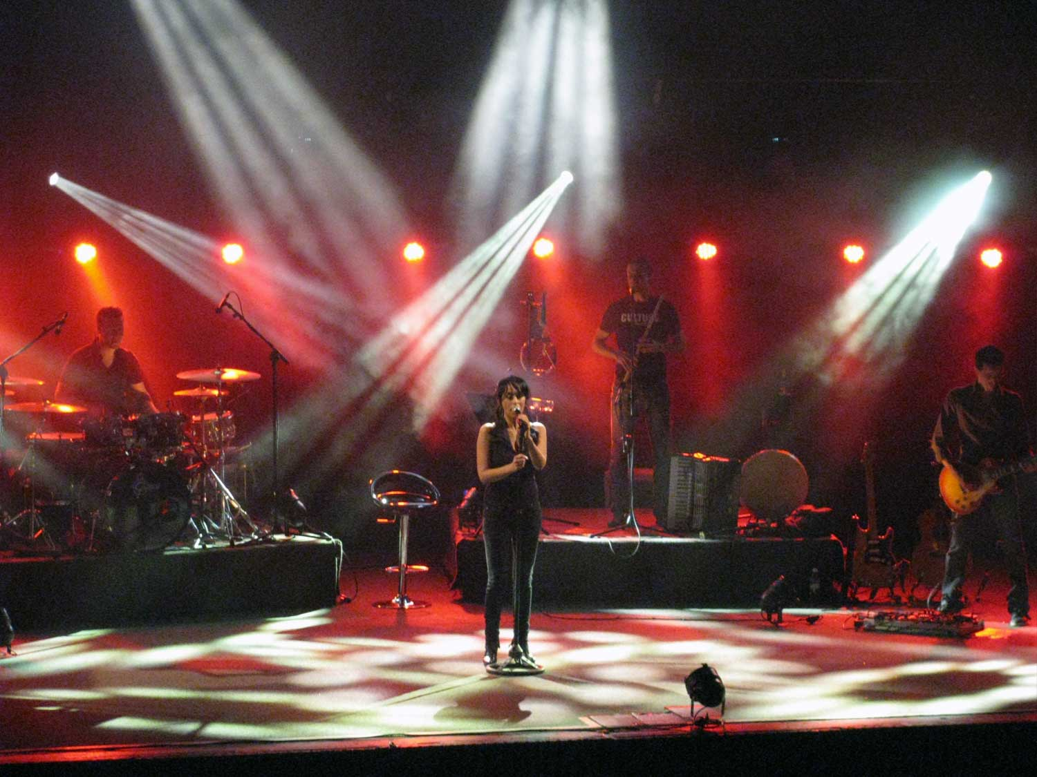 Israeli singer, Rita Yahan Farouz, during her concert at Jerusalem